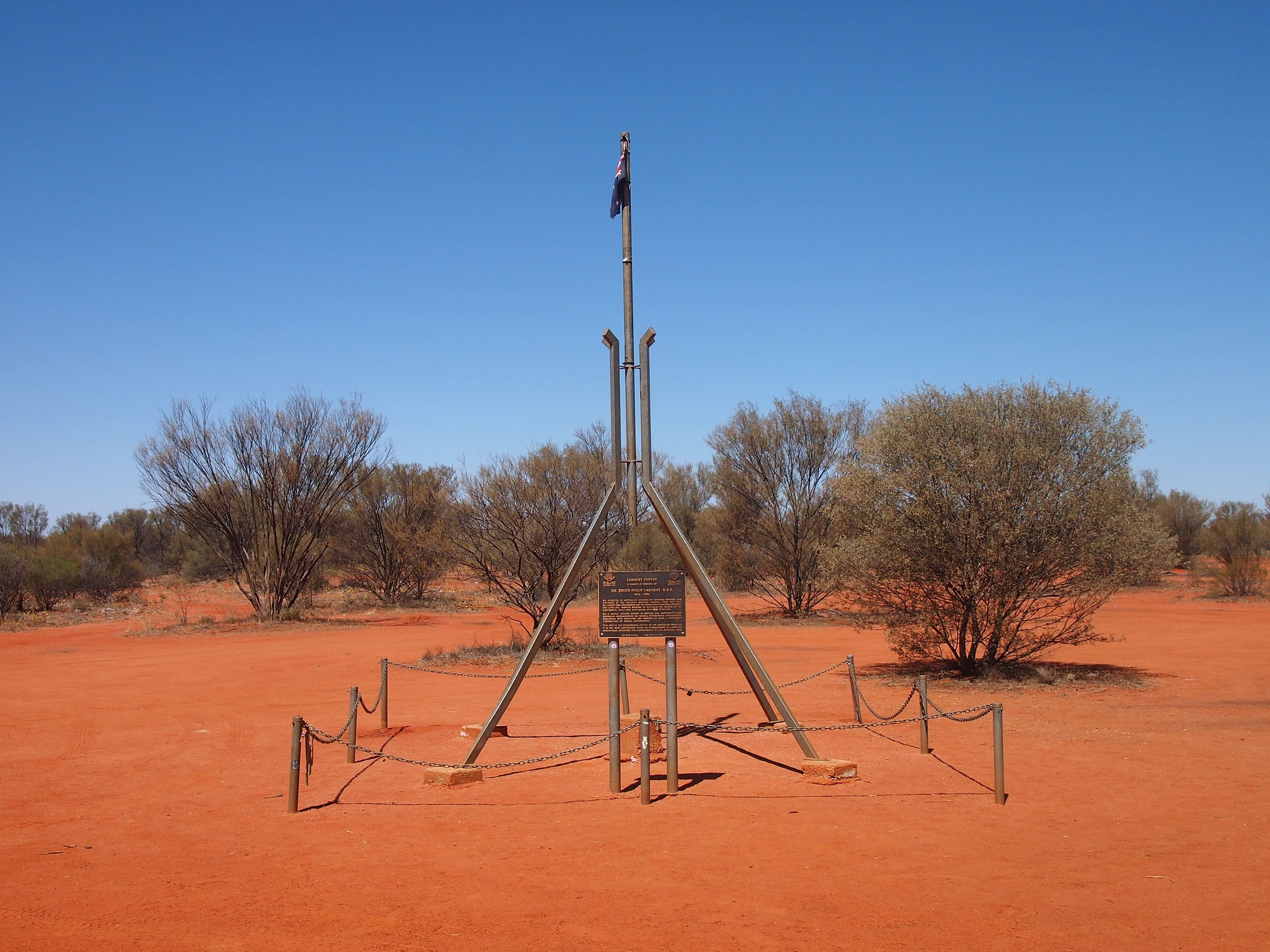 Marker at Lambert Centre, the geographical centre of Australia